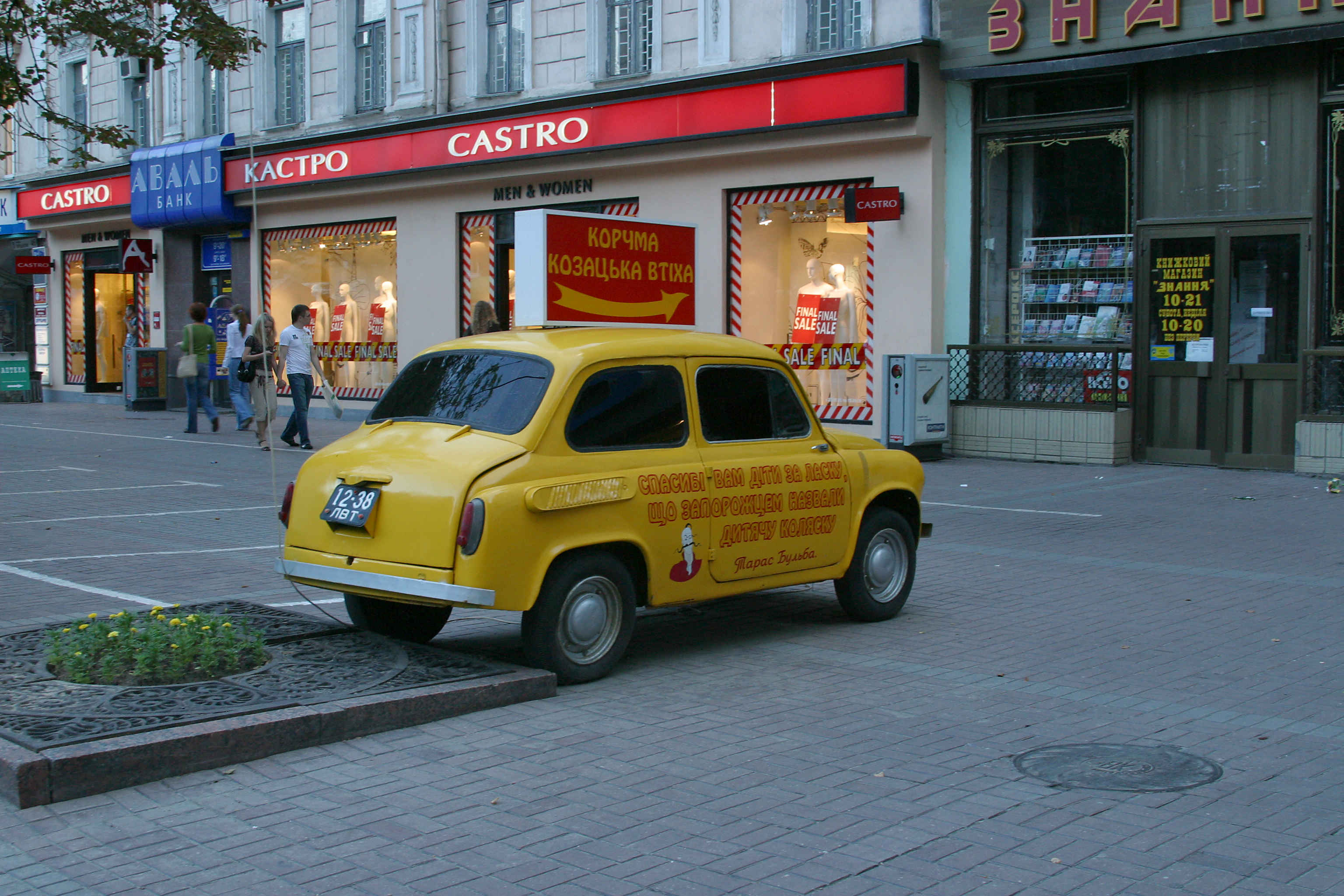 Old ZAZ-965A Zaporozhets, in Kiev, Ukraine.